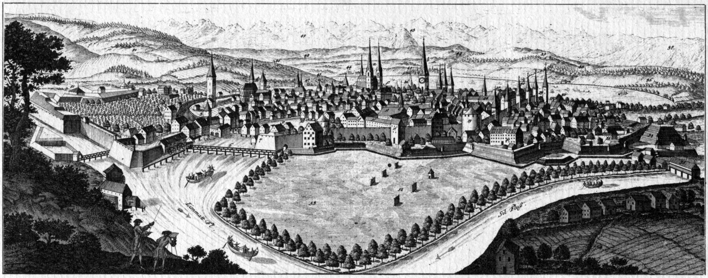 View of Zurich 1724. Engraving according to a painting by Melchior Füssli